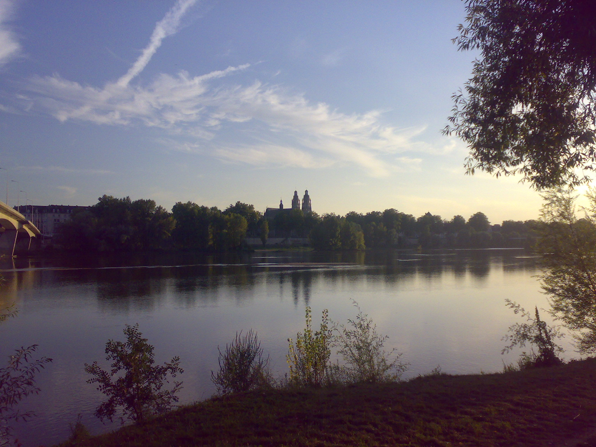 A view back towards central Tours from the north bank of the Loire River.